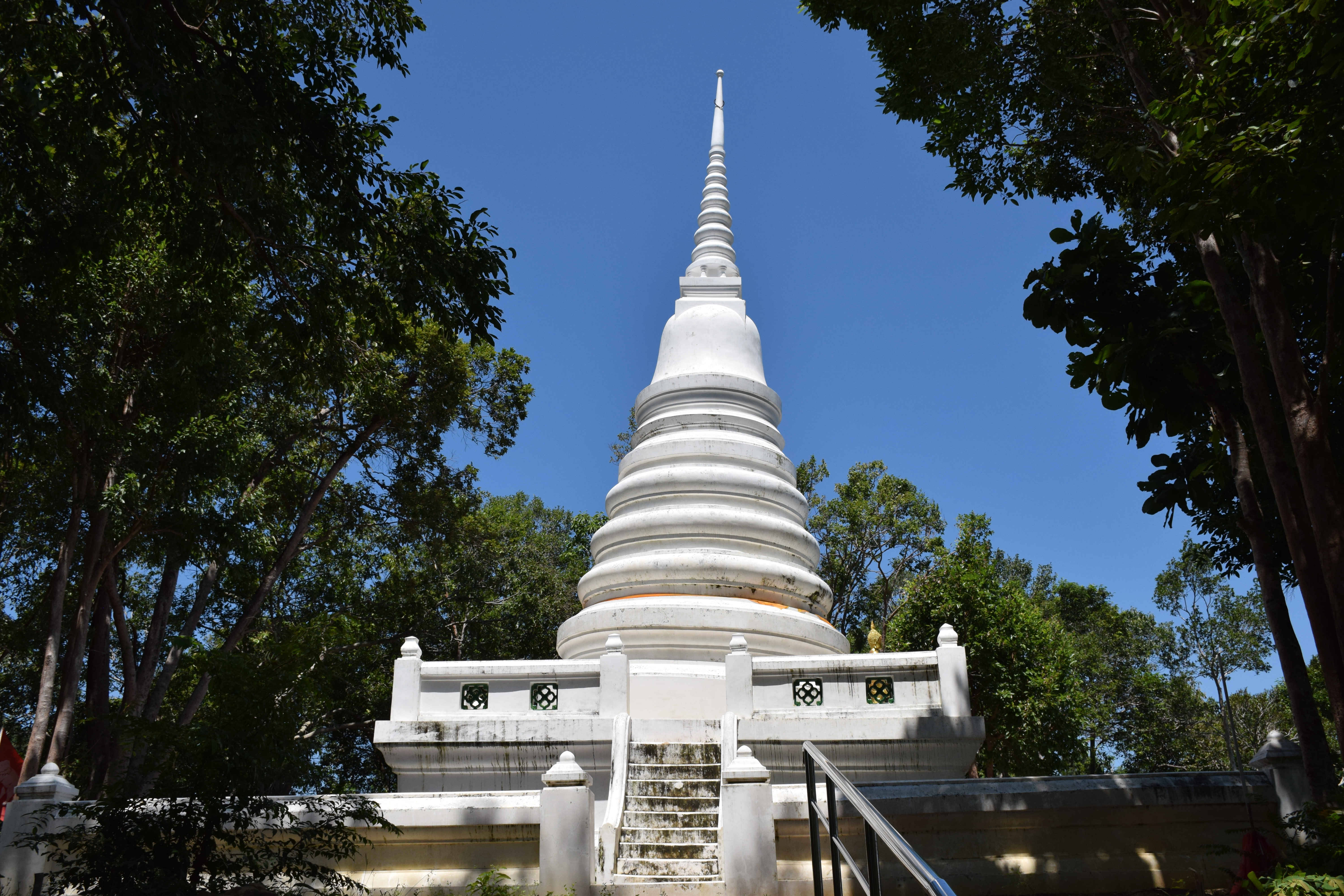 ป้อมไพรีพินาศ